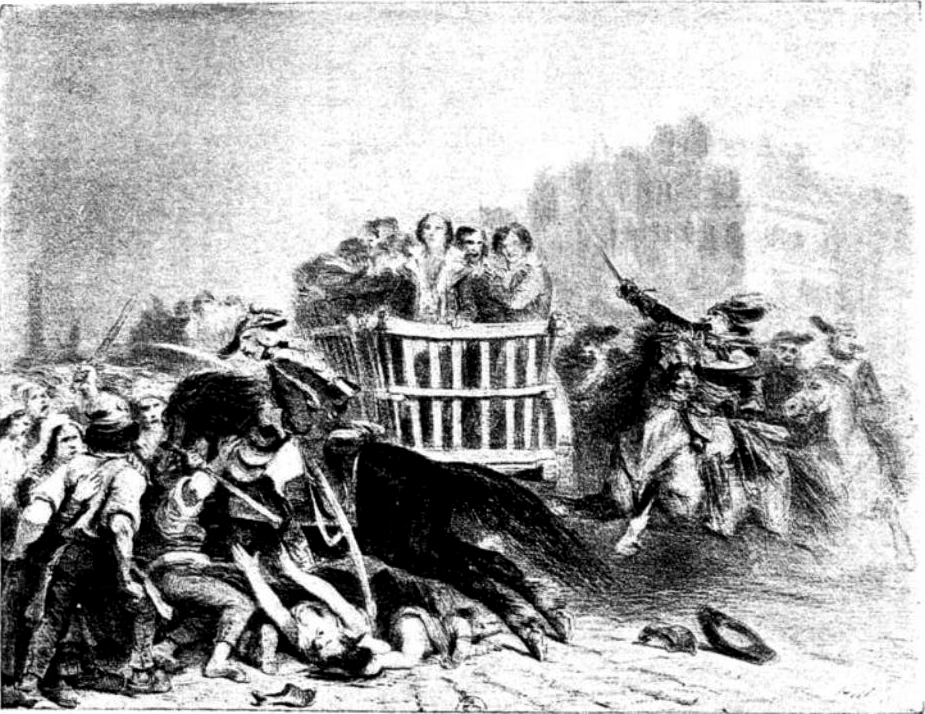 "The Last Cart" of the Reign of Terror before the Thermidorian Reaction. Drawing of Denis Auguste Marie Raffet.(1804-1860), French illustrator and lithographer